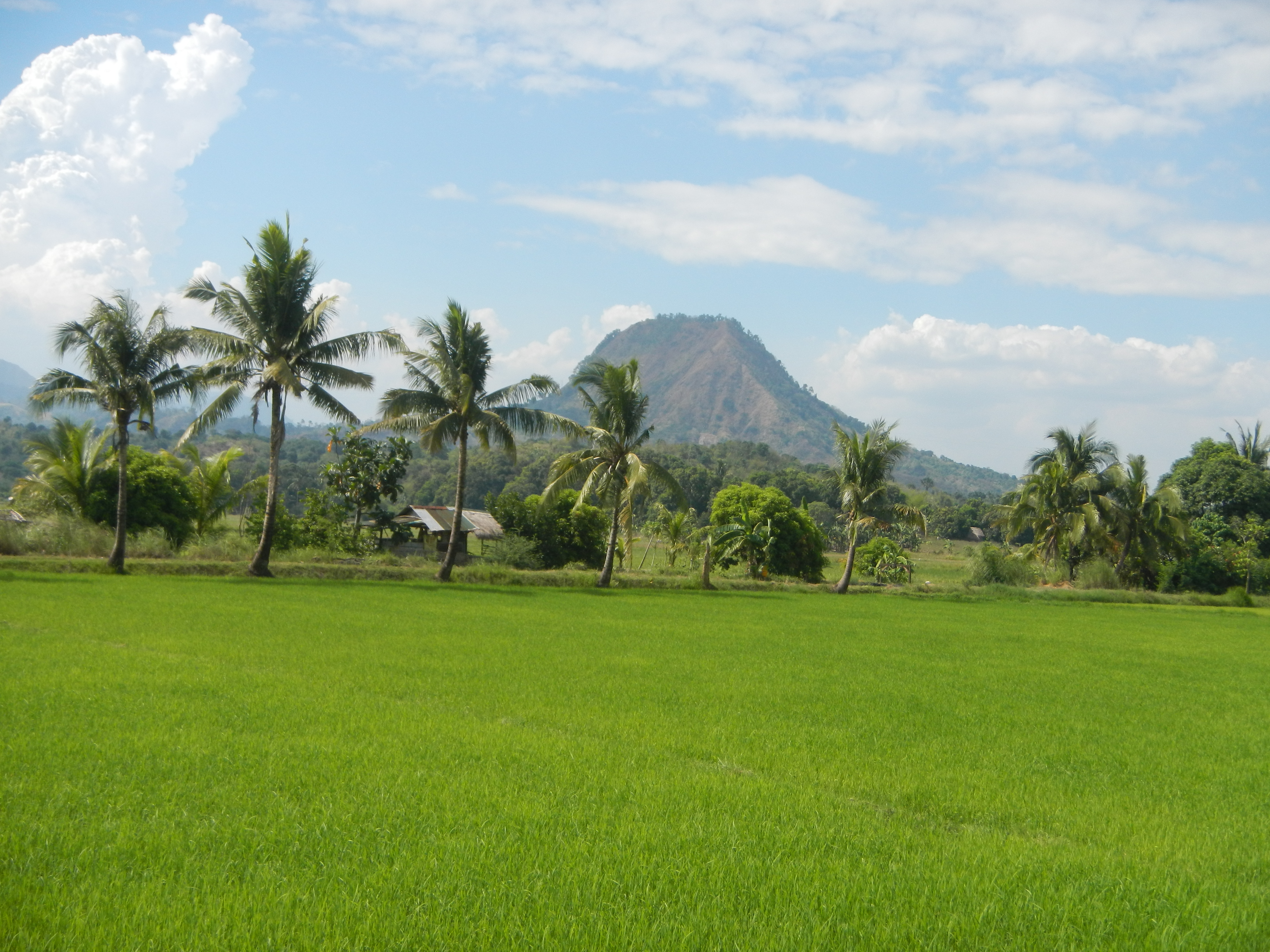 Barangays San Benito, beside Pag-asa, Magsaysay, Naparing, Colo, San Pablo, Happy Valley, Pinulot and Roosevelt, Dinalupihan, Bataan, Bataan province beside Barangays Barangays Maite and Bamban, Hermosa, Bataan Bataan province (along the Gapan-San Fernando-Olongapo (G.S.O.) Road (Naparing, Colo, Magsaysay, Luacan, Saguing and San Ramon, Dinalupihan, Bataan National Highway section) Gapan-San Fernando-Olongapo (G.S.O.) Road (Dinalupihan & Hermosa, Bataan-Olongapo City National Highway section) all at the foot of Mount Samat and surrounded by the Roosevelt Protected Landscape also at the foot of Mount Santa Rita and Mount Malasimbo in the Zambales Mountain Range at the border between the municipalities of Dinalupihan and Hermosa in Bataan, from and along the Bataan Provincial Expressway also known as the Roman Expressway or the Roman Superhighway, interconnecting with and to Olongapo-Gapan Road).